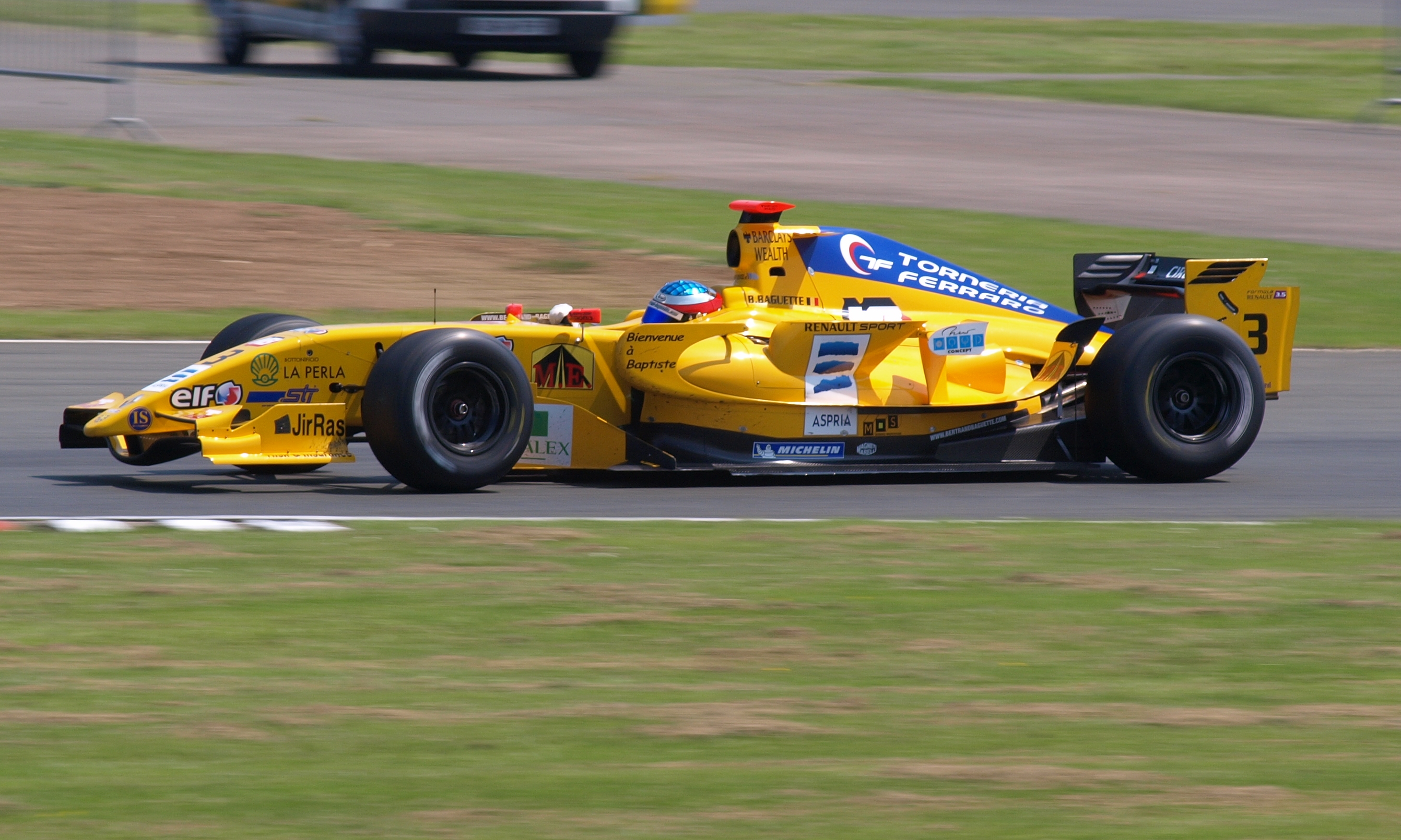 Bertrand Baguette driving for Draco Racing at the Silverstone round of the 2008 World Series by Renault season.